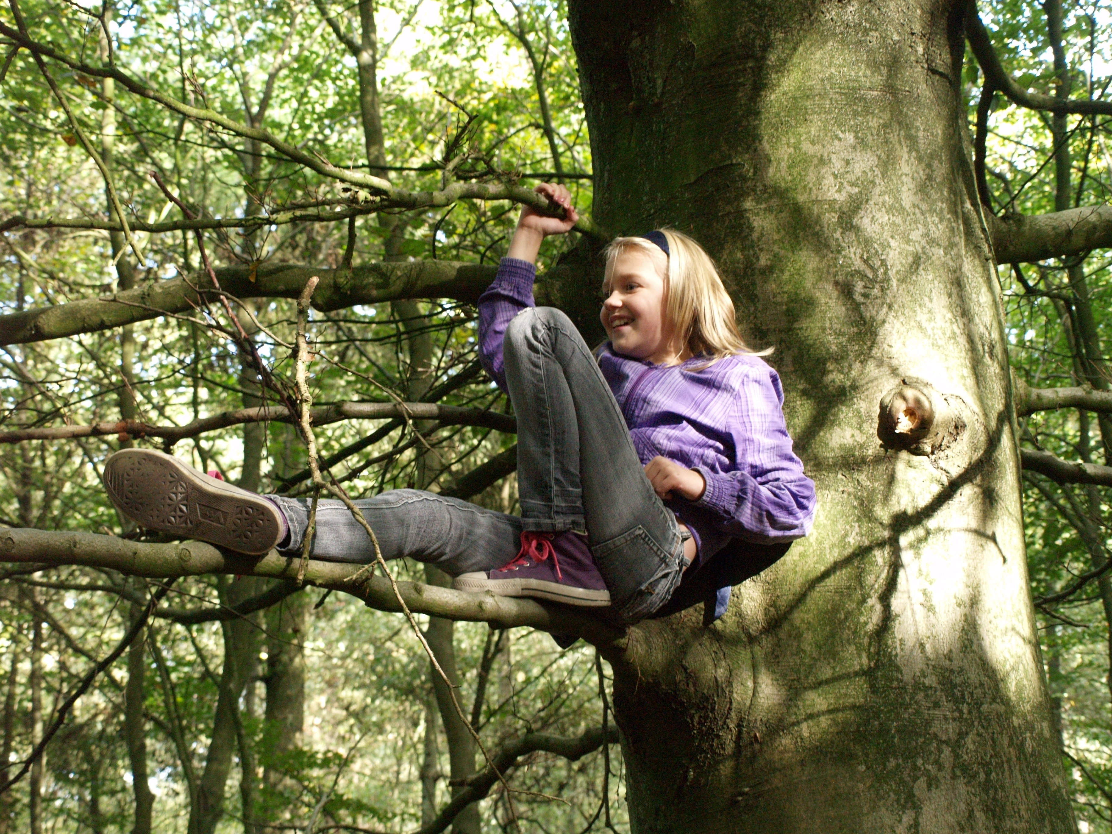 There seem to exist tomboys, but my niece is a true tree girl. Every tree is a object for climbing.